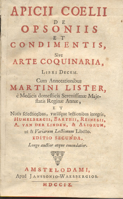 Apicius, De Opsoniis et Condimentis (Amsterdam: J. Waesbergios), 1709. Limited to 100 copies (KSU owns four).